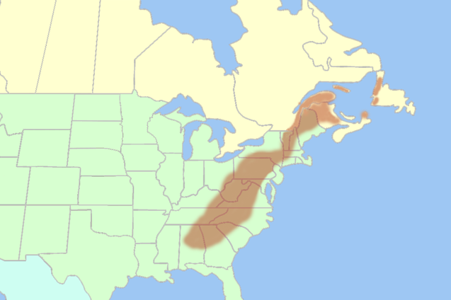 Inaccurate map of the Appalachian Mountains shown in the Eastern United States and Eastern Canada.